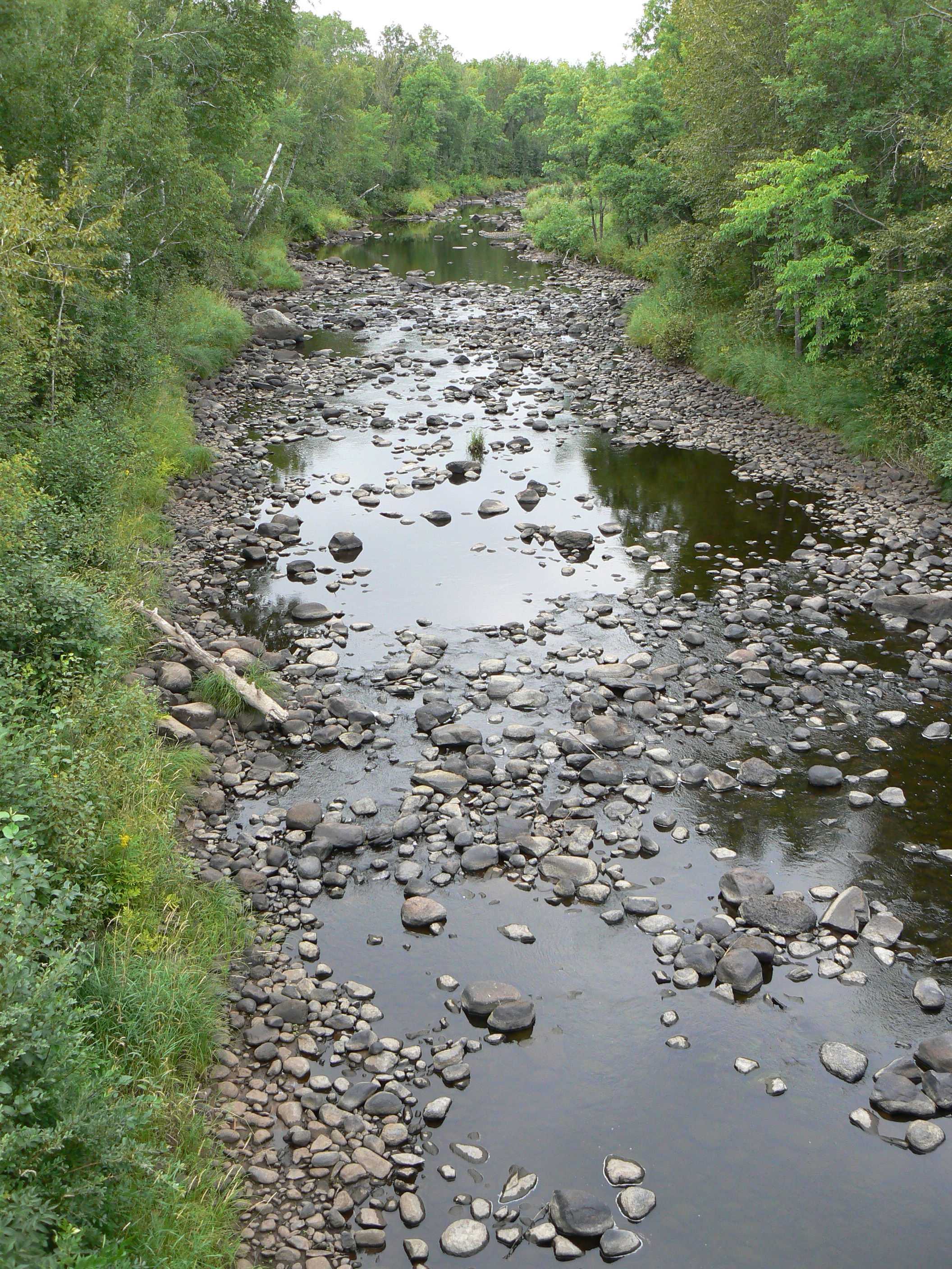 Ben Werner (me) Low Water, Kettle River